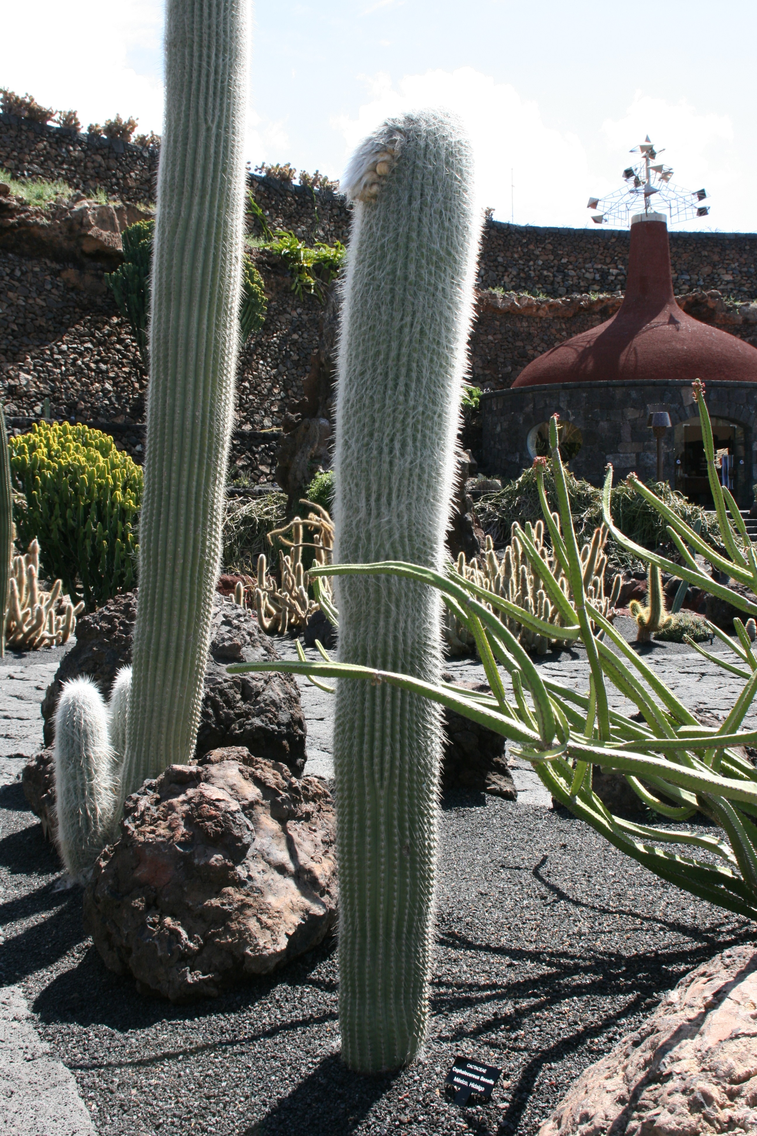 Cephalocereus senilis grown in the Botanical Garden “Jardin de Cactus” in Guatiza, Teguise, Lanzarote, Canary Islands